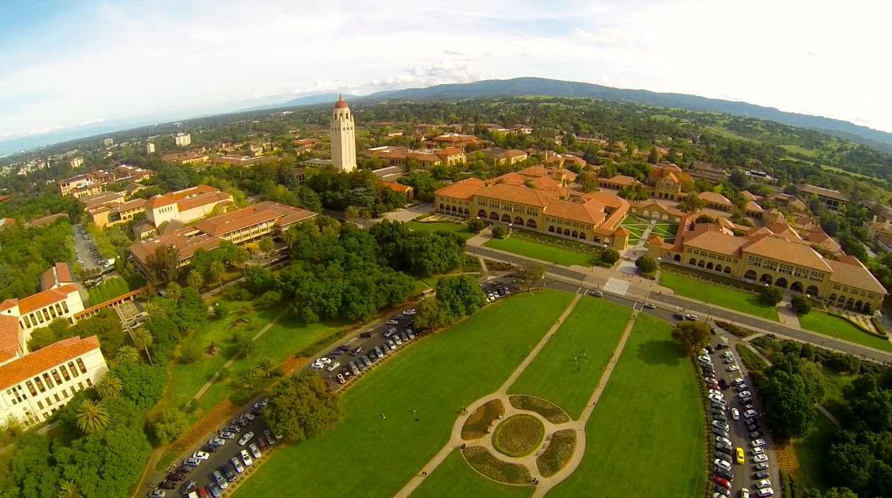 This is an arial view of the Oval